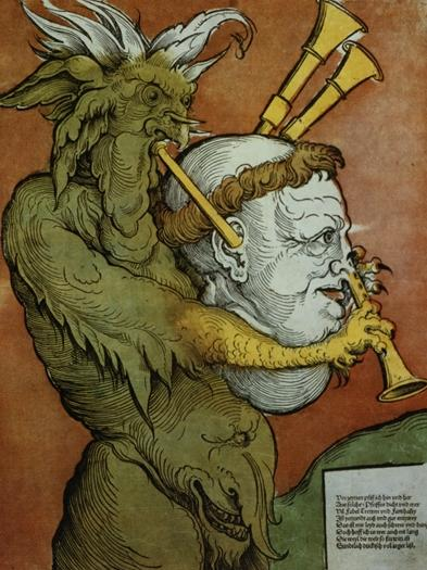 The caricature shows a fat monk, used as bagpipe by the devil. The monk-bagpipe is not Martin Luther (as asserted in some popular literature), but a representative of contemporaneous monasticism which is denunciated to be inspired by the devil. The German text says: Once I (the devil) piped here and there with such pipes, which where very numerous. I piped many fairy tales, dreams and fantasies. Now it's over and the pipes destroyed (by the Lutheran reformation) which makes me sad and angry. But I hope this won't last long because in the world there is enough haughtiness, sin, fraud and ruse.